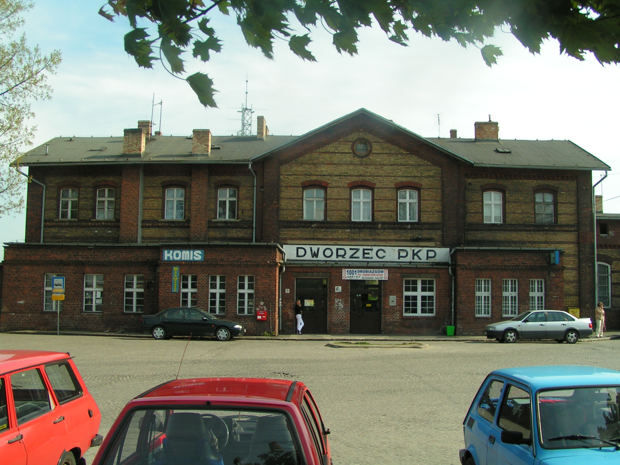 Train station Świebodzin. Front view.